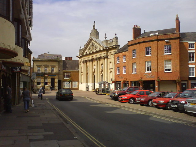 Part of the Market Square, Banbury, Oxfordshire. The façade of the former Corn Exchange (centre) has been preserved as an entrance to the Castle Quay shopping centre.